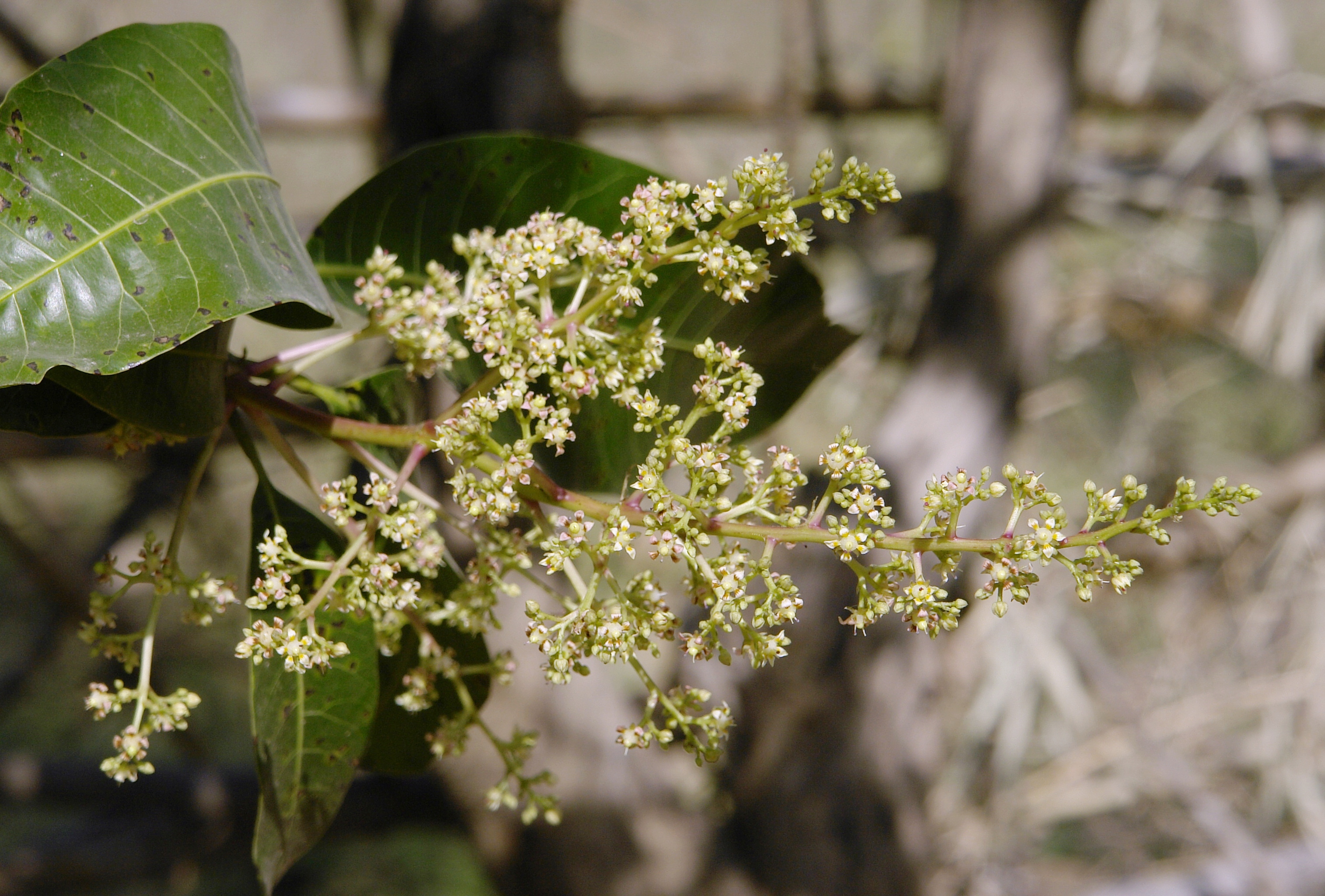 Mango tree flowers (Mangifera indica), Umaria district, Madhya Pradesh, India.